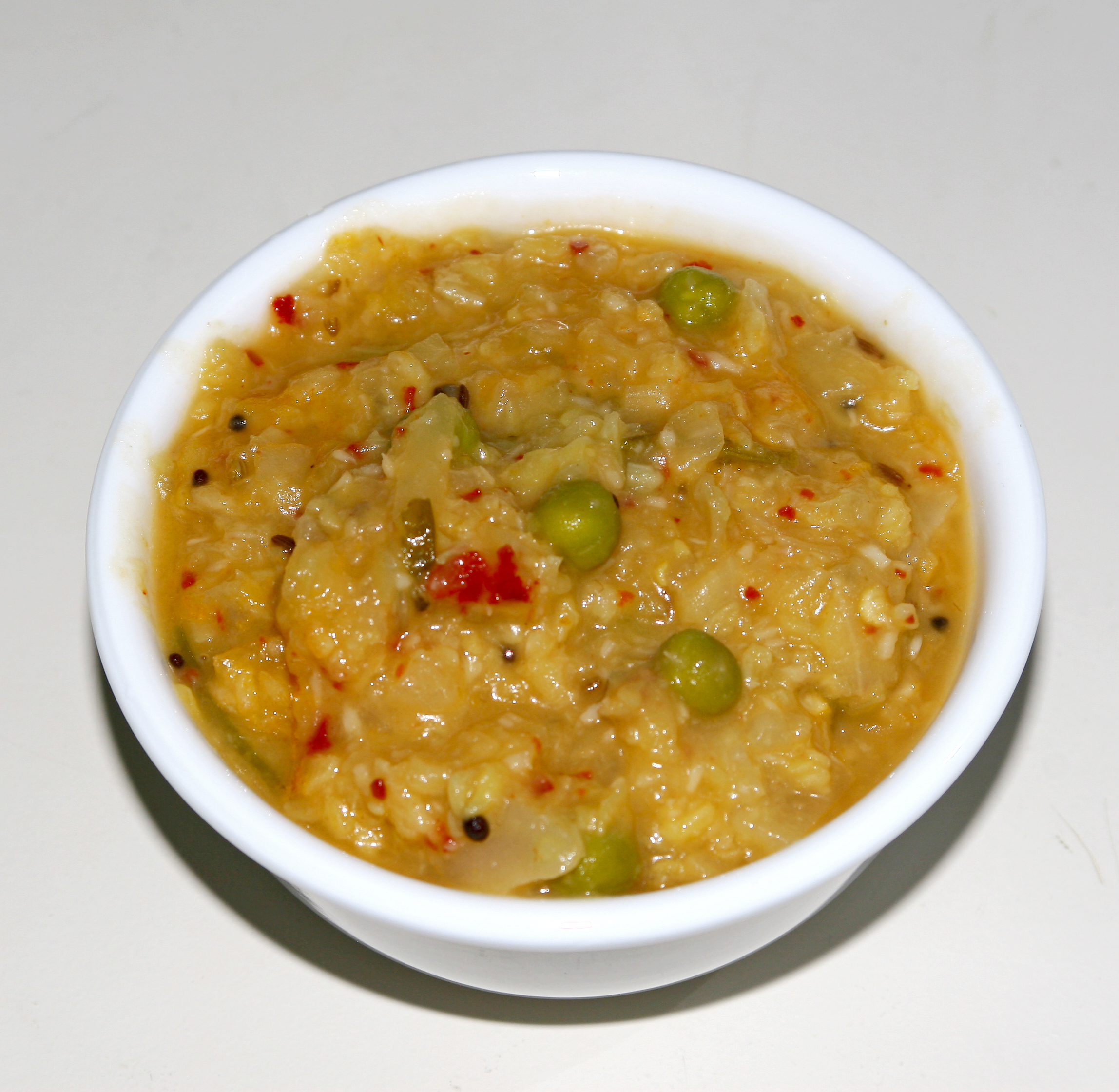 Cabbage Kootu (A dish made in the state of Tamil Nadu, India. It is made from lentils and cabbage as the major ingredients.